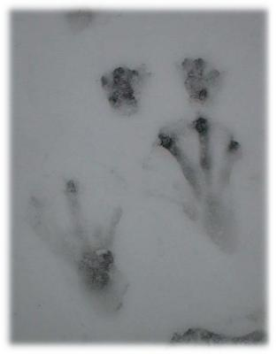 Photo by user:Bridesmill in Tichborne, Ontario 20 Feb 2002 Beaver prints. Hind paws approx 20cm long